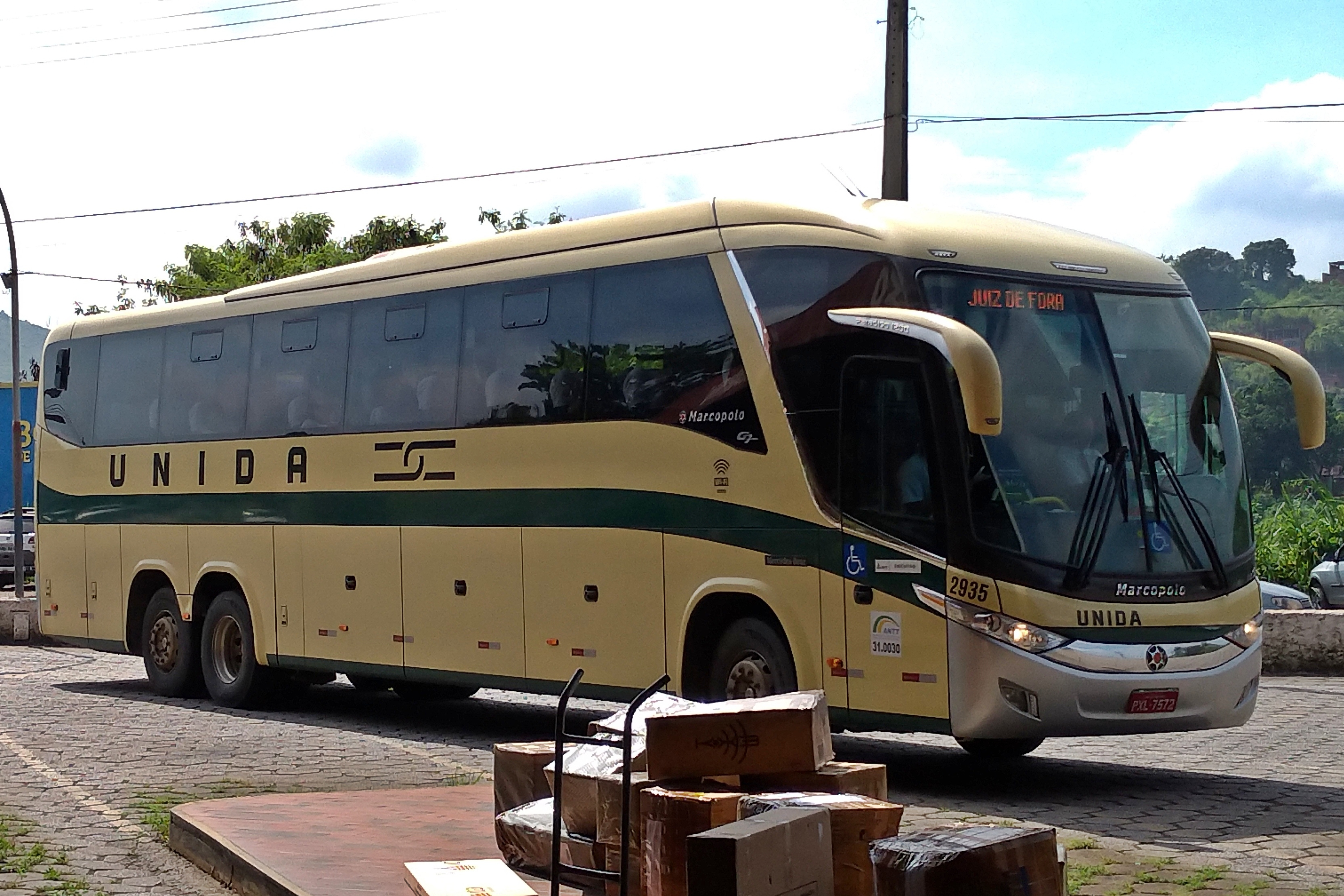 Marcopolo Paradiso 1200 G7 bus (reg. PXL-7572, #2935, line Ipatinga–Juiz de Fora) with Mercedes-Benz O-500RSD Bluetec5 chassis of the Unida company, in the Coronel Fabriciano bus station, in Coronel Fabriciano, Minas Gerais, Brazil.